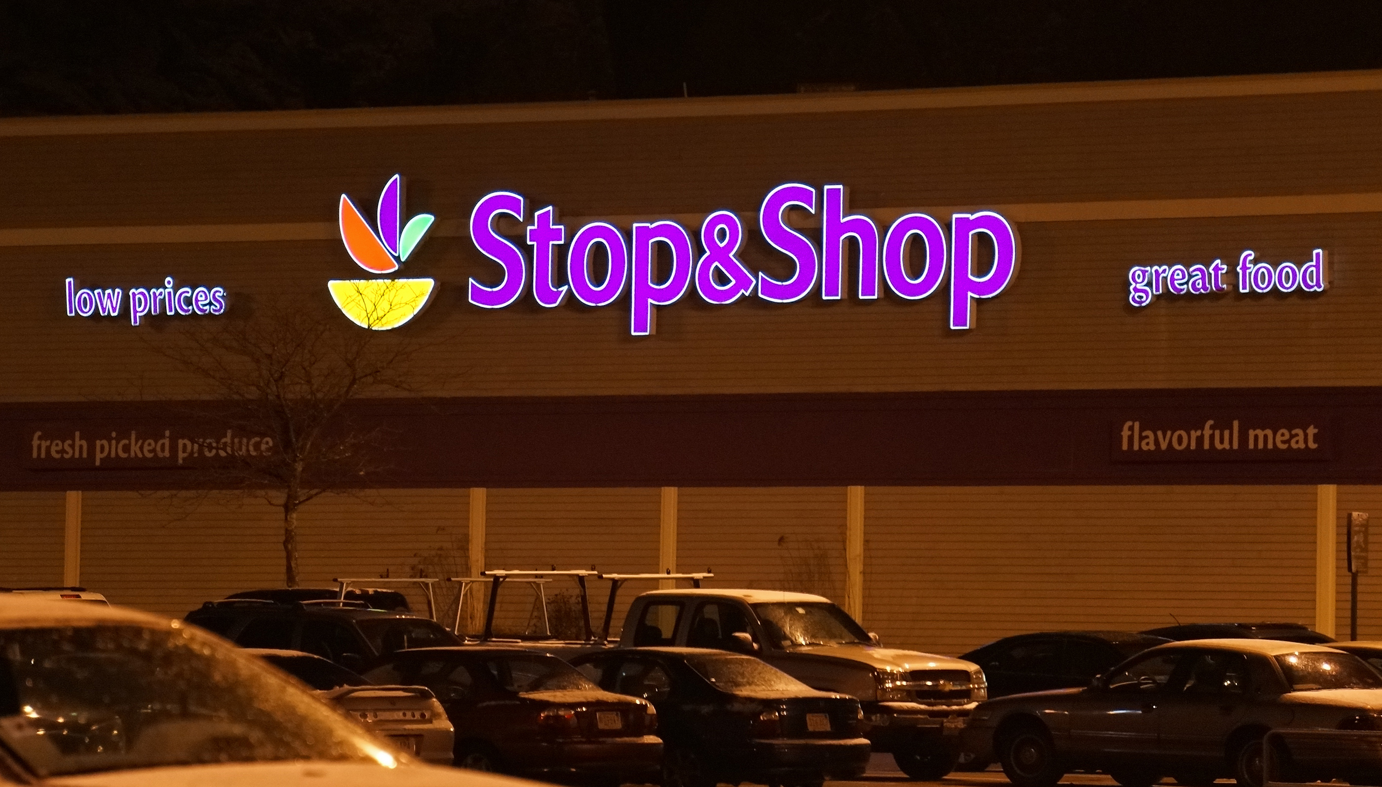 Stop & Shop, Saugus, Massachusetts. Night view.